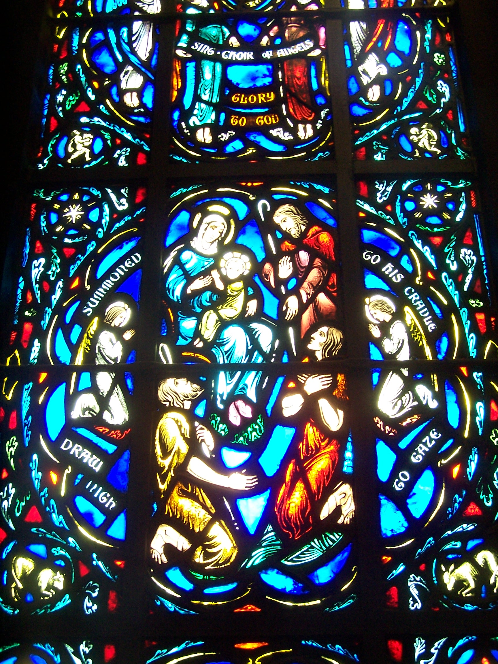 Nativity scene. Heinz Chapel detail.